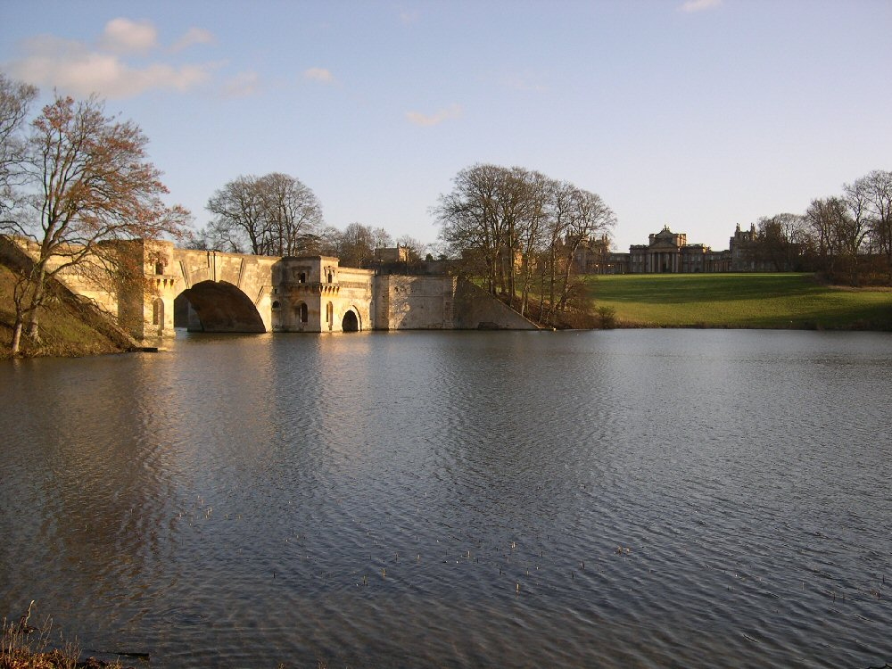 Grand Bridge and lake at Blenheim Palace, Oxfordshire.